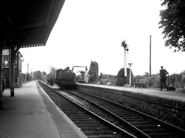 Witney station This was taken just one week before the end of passenger train operation on the Fairford branch. Pannier tank locomotive No 7404 heads a train from Oxford to Fairford. This location is now completely obliterated by the dual-carriageway A40.